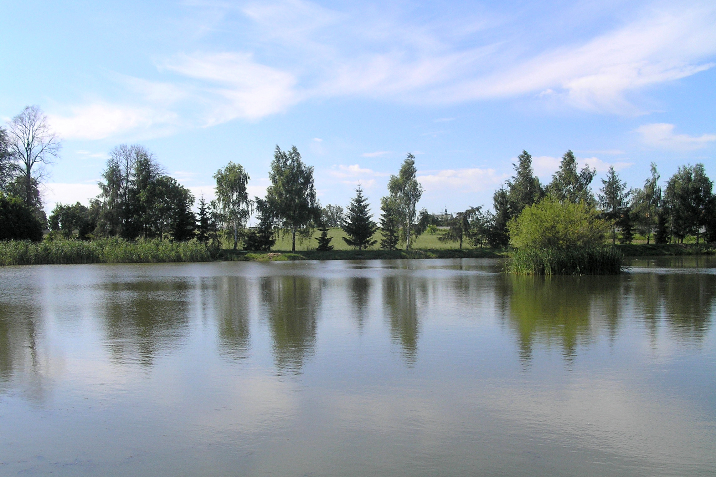 Skrzynczyna Pond, Sędziszów Małopolski, Poland